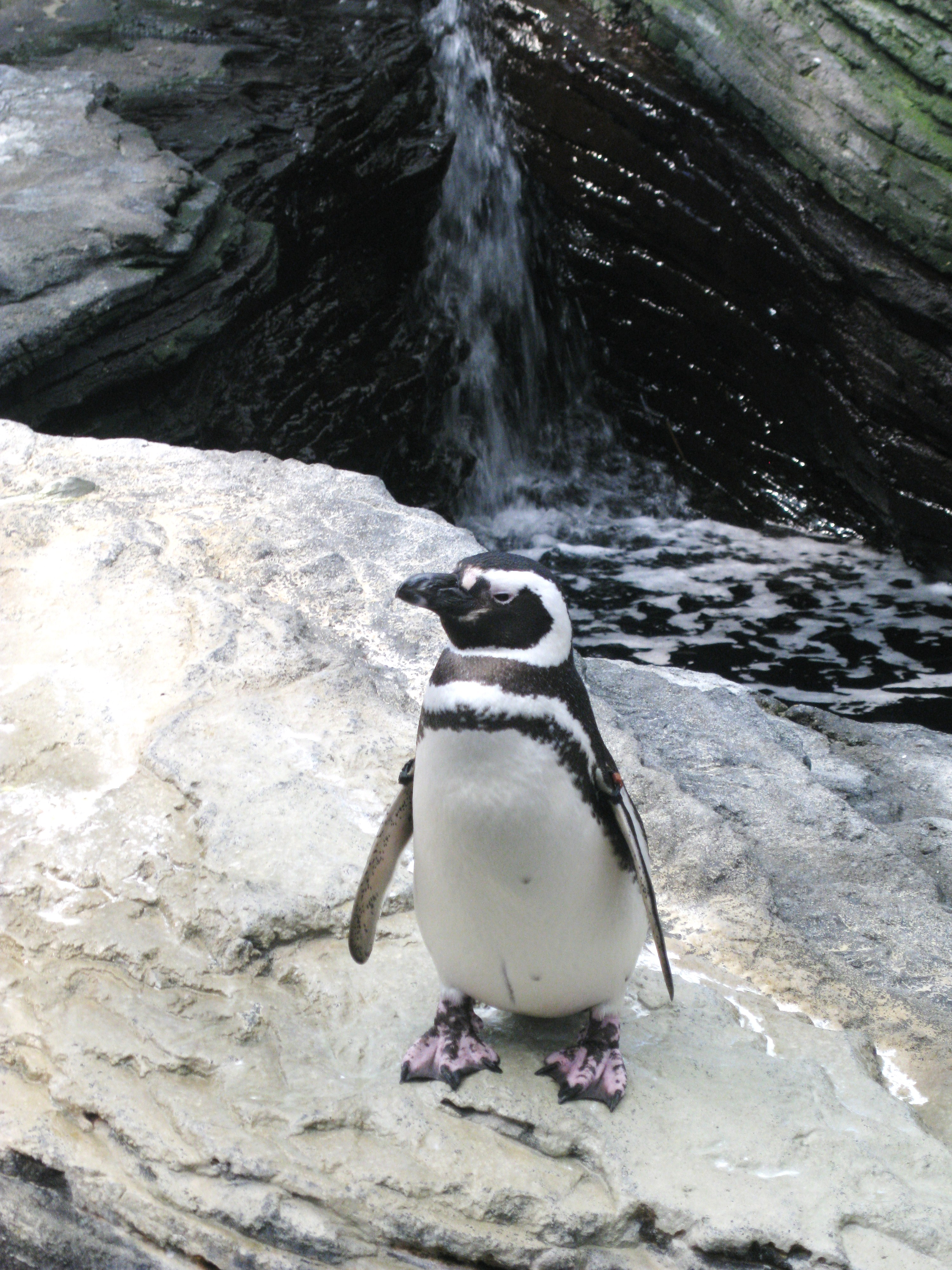 Magellanic Penguin